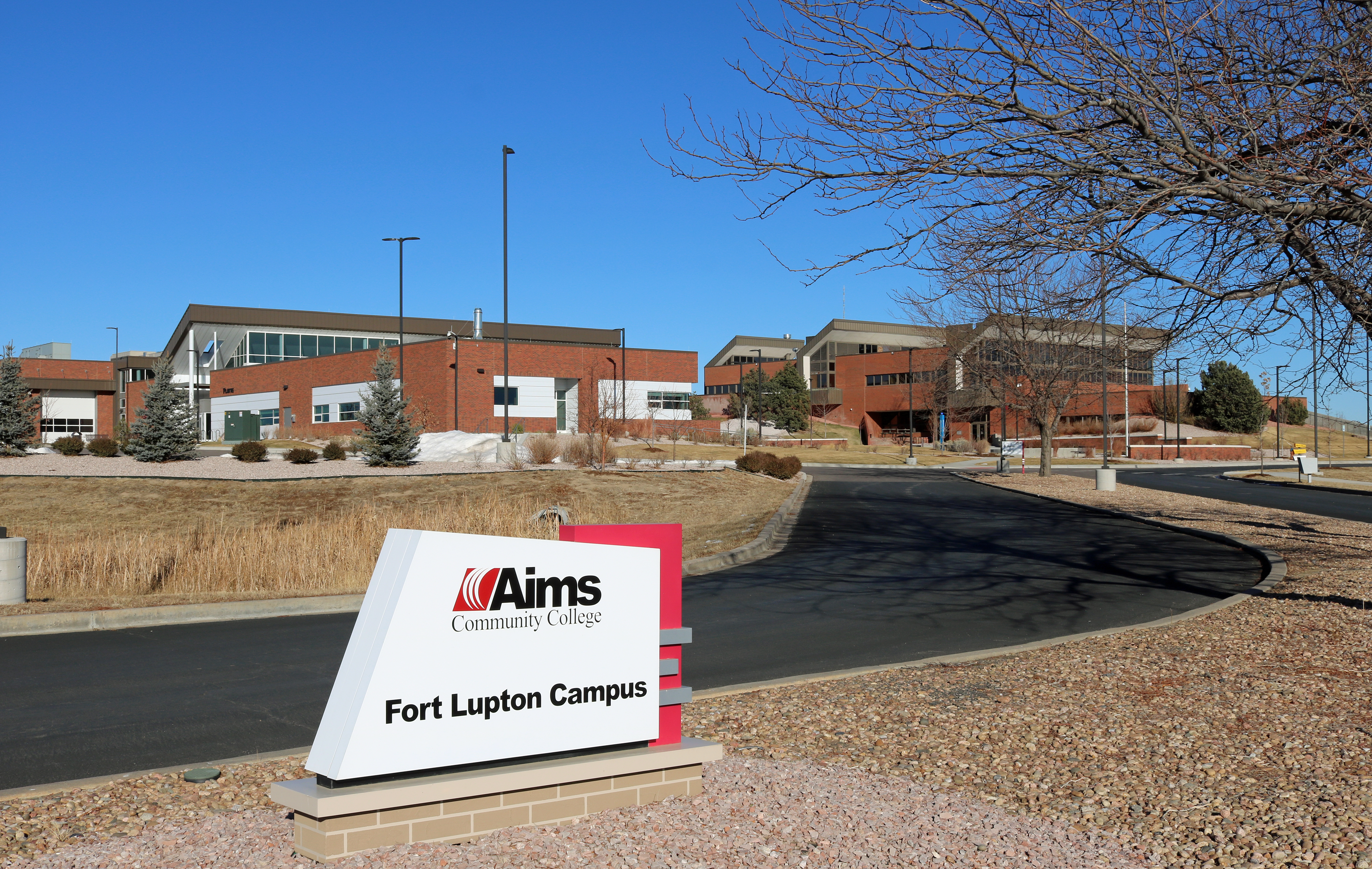 The Fort Lupton Campus of Aims Community College. The campus is located at 260 College Avenue in Fort Lupton, Colorado.